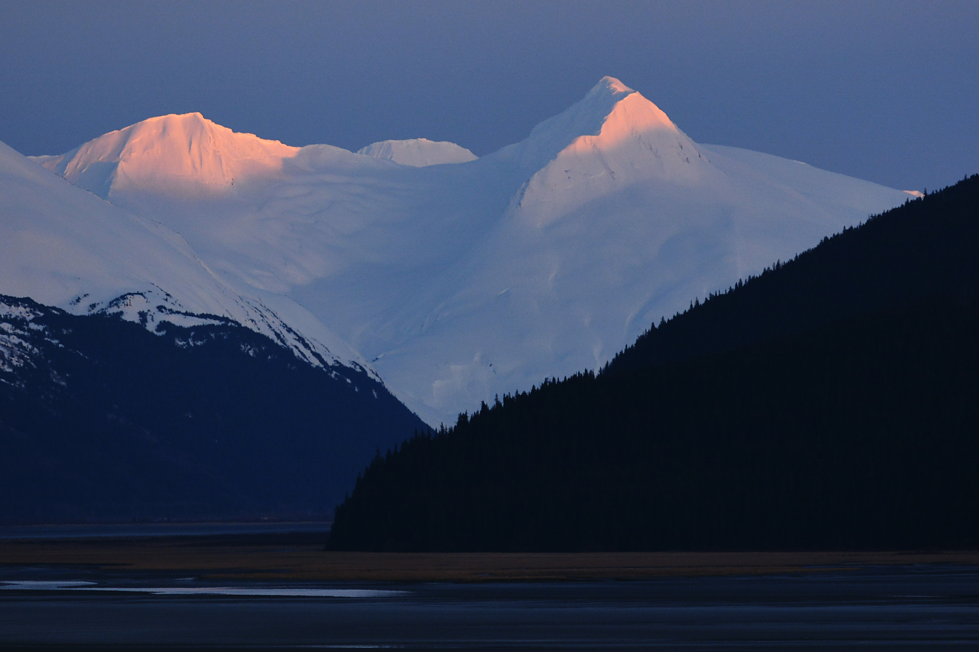 Shakespeare Shoulder and Baird Peak, towering over the far end of the Turnagain Arm.